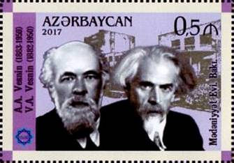 Union of Architects of Azerbaijan. N 1304 - 50 qapik. - There are pictured Leonid Vesnin, Victor Vesnin and Palaces of culture in Baku on the stamps.